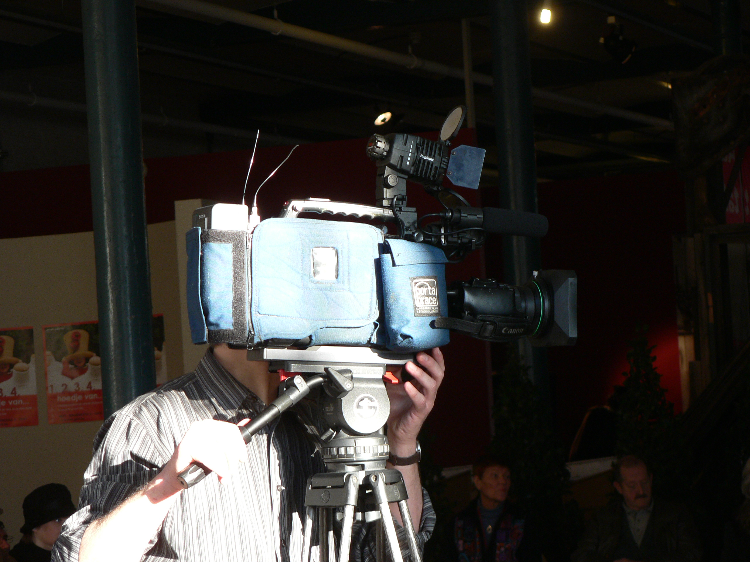 film camera Porta Brace - top view